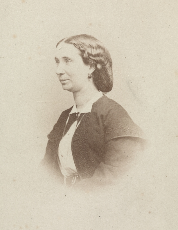 Depicted person: Clara Ursin – actor